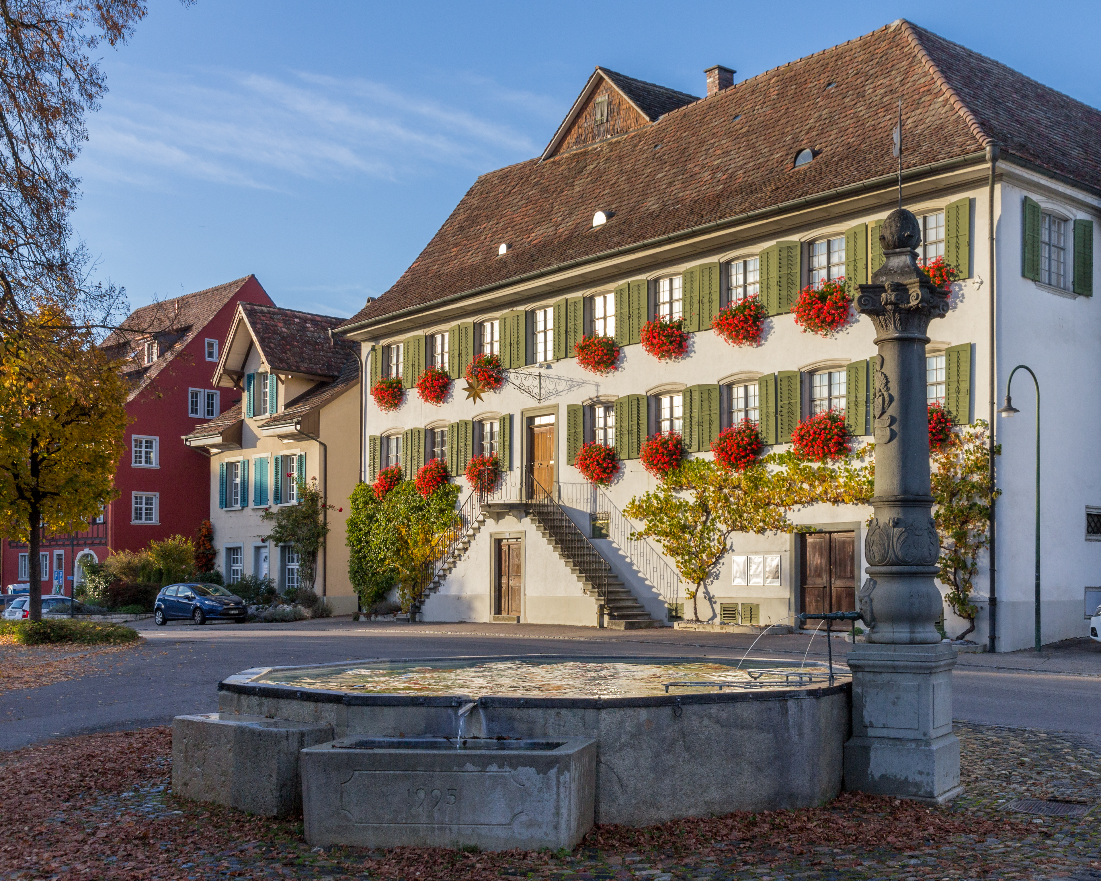 Thayngen, canton of Schaffhausen: Village fontaine and house "Zum Sternen", built 17th century.